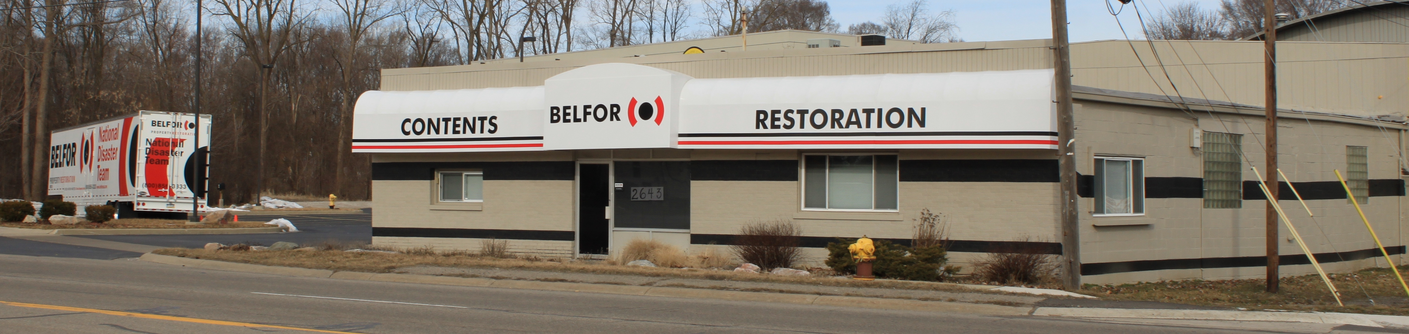 Belfor property restoration branch office, 2643 e. Michigan Avenue, Ypsilanti Michigan. The published address is 2625 E. Michigan Avenue, which is the address of the building next door, the former Coach's property restoration which Belfor bought but which still had some Coach's signage when the photo was taken.